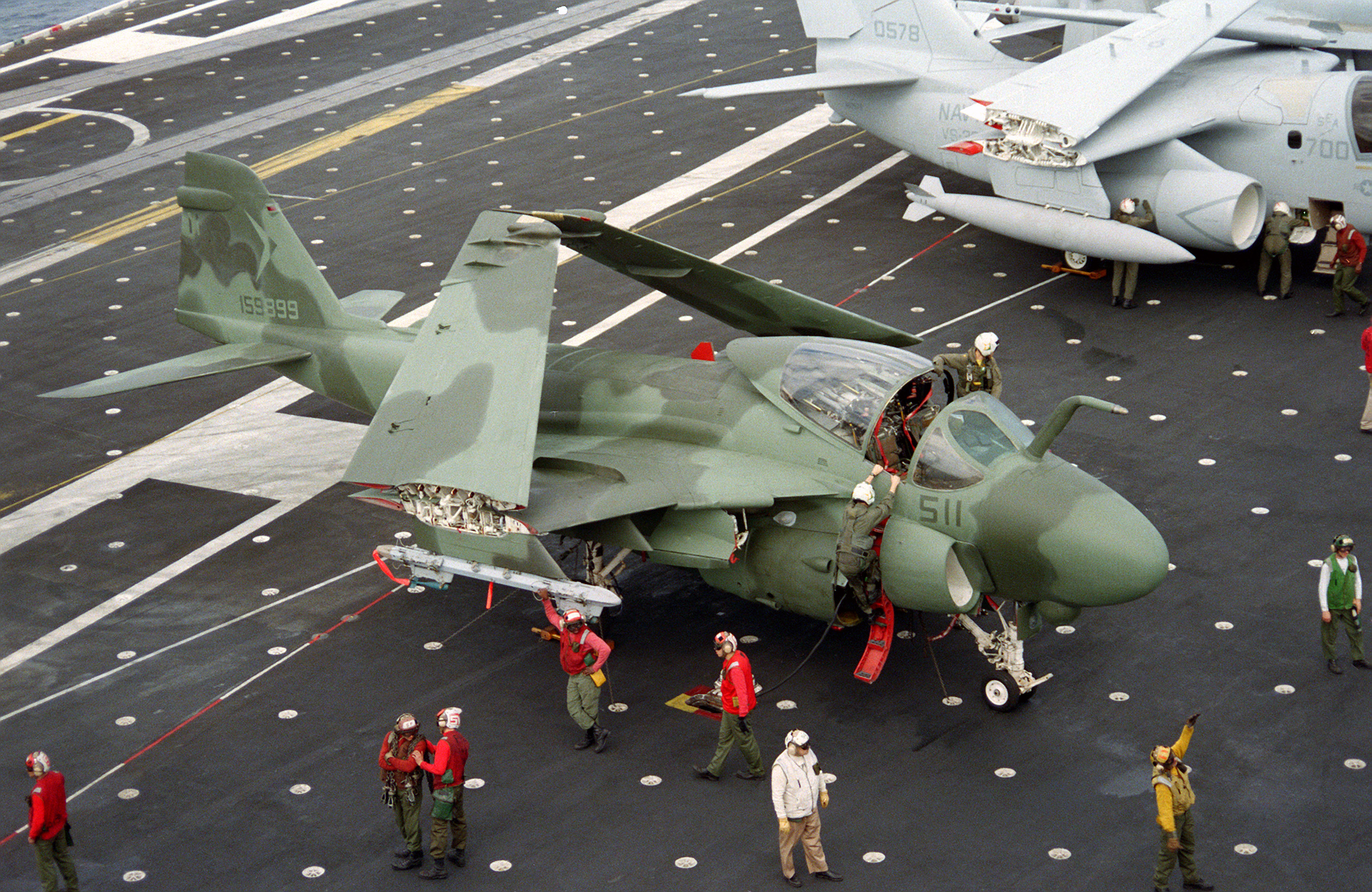 A U.S. Navy Grumman A-6E Intruder (BuNo 159899) from attack squadron VA-165 Boomers aboard the aircraft carrier USS Constellation (CV-64) on 15 February 1990. Note the non-standard camouflage paint. In the background is a Lockheed S-3A Viking (BuNo 160578) from anti-submarine squadron VS-33 Screwbirds. Both squadrons were assigned to Carrier Air Wing 9 (CVW-9) for a voyage aboard Constellation from San Diego, California, to Norfolk, Virginia, around Cape Horn from February to April 1990.